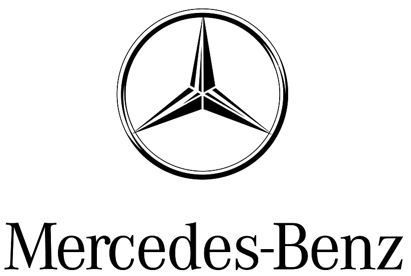 Logo of German automobile company Mercedes-Benz, released in 1989